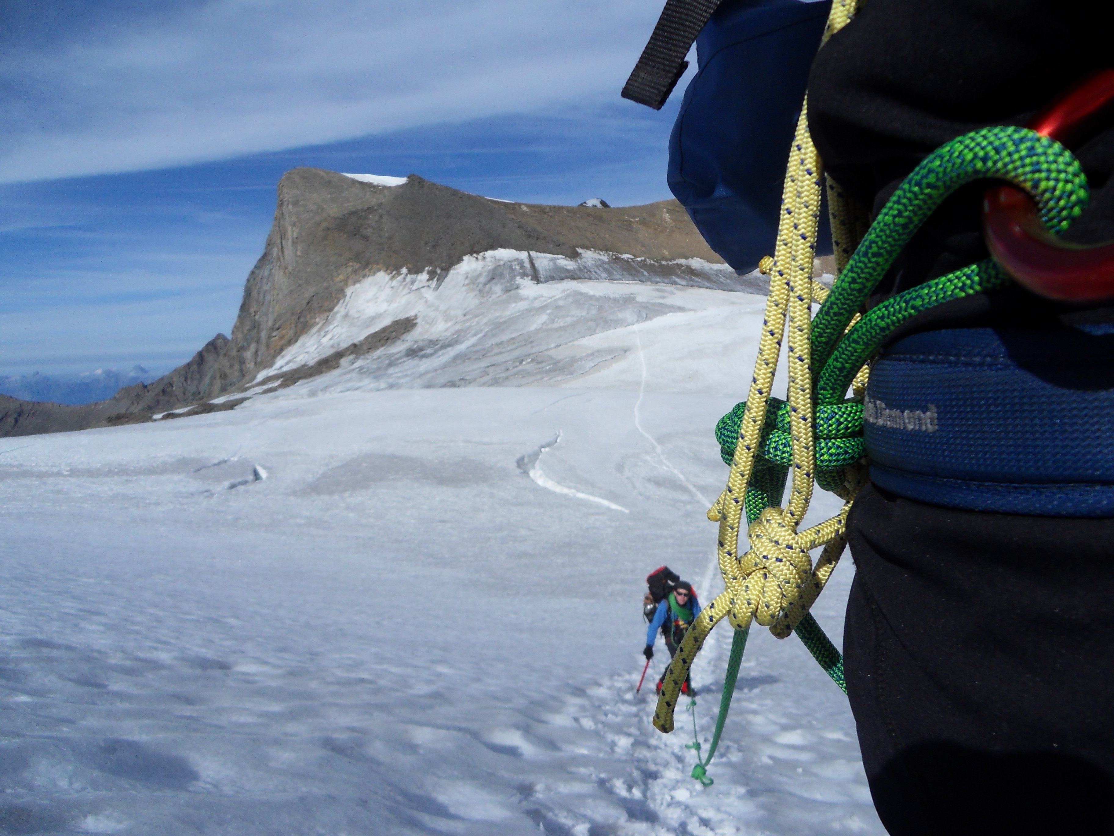 Rope team at the Klockerin, Glocknergruppe, Austria.